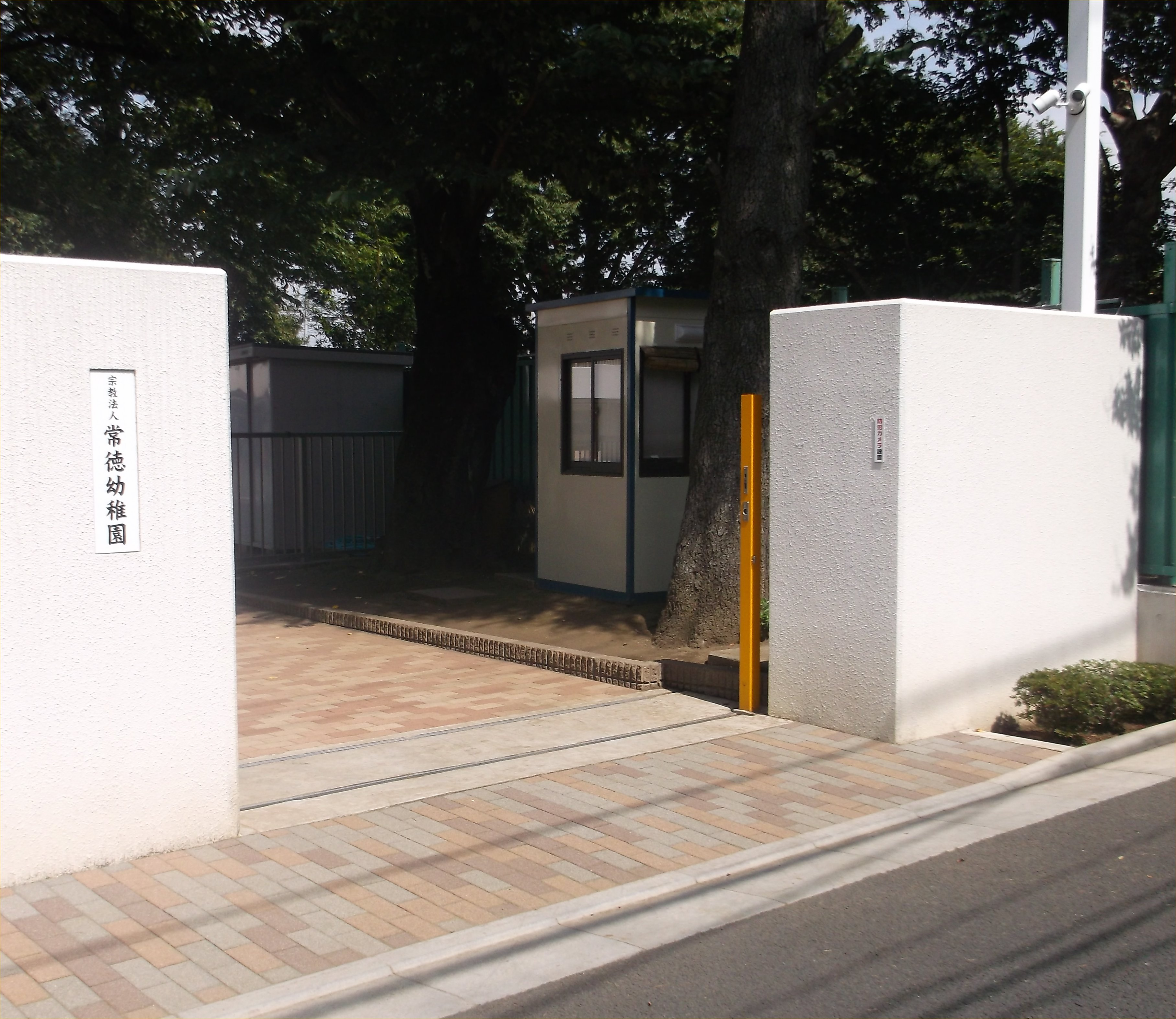 A photo of the entrace of Jyotoku Kindergarten,Miyasaka,Setagaya-ku,Tokyo,Japan.